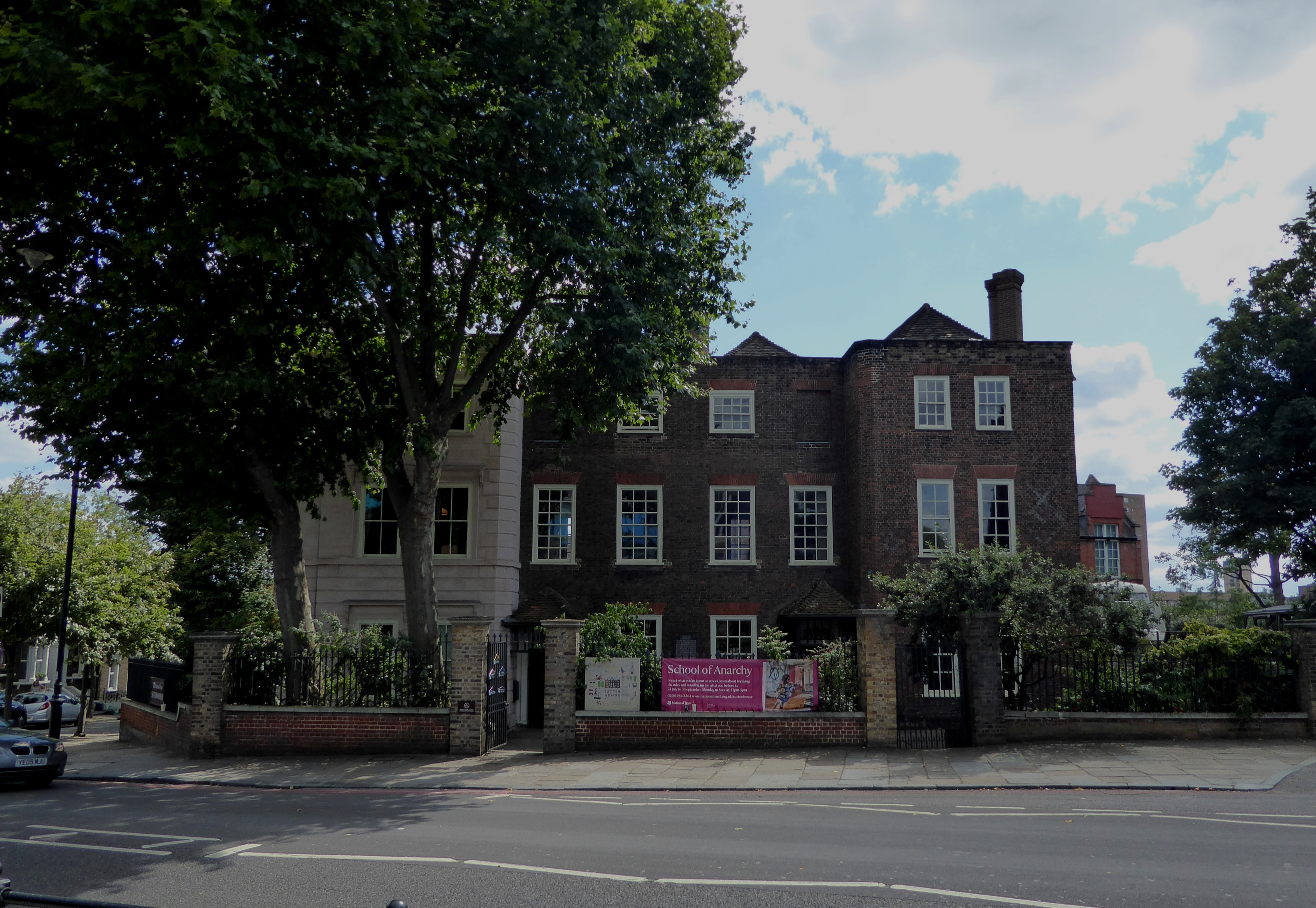 Exterior of Sutton House, Hackney Central, London Borough of Hackney.